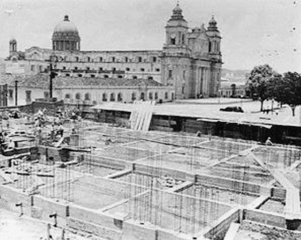 Catedral en 1940